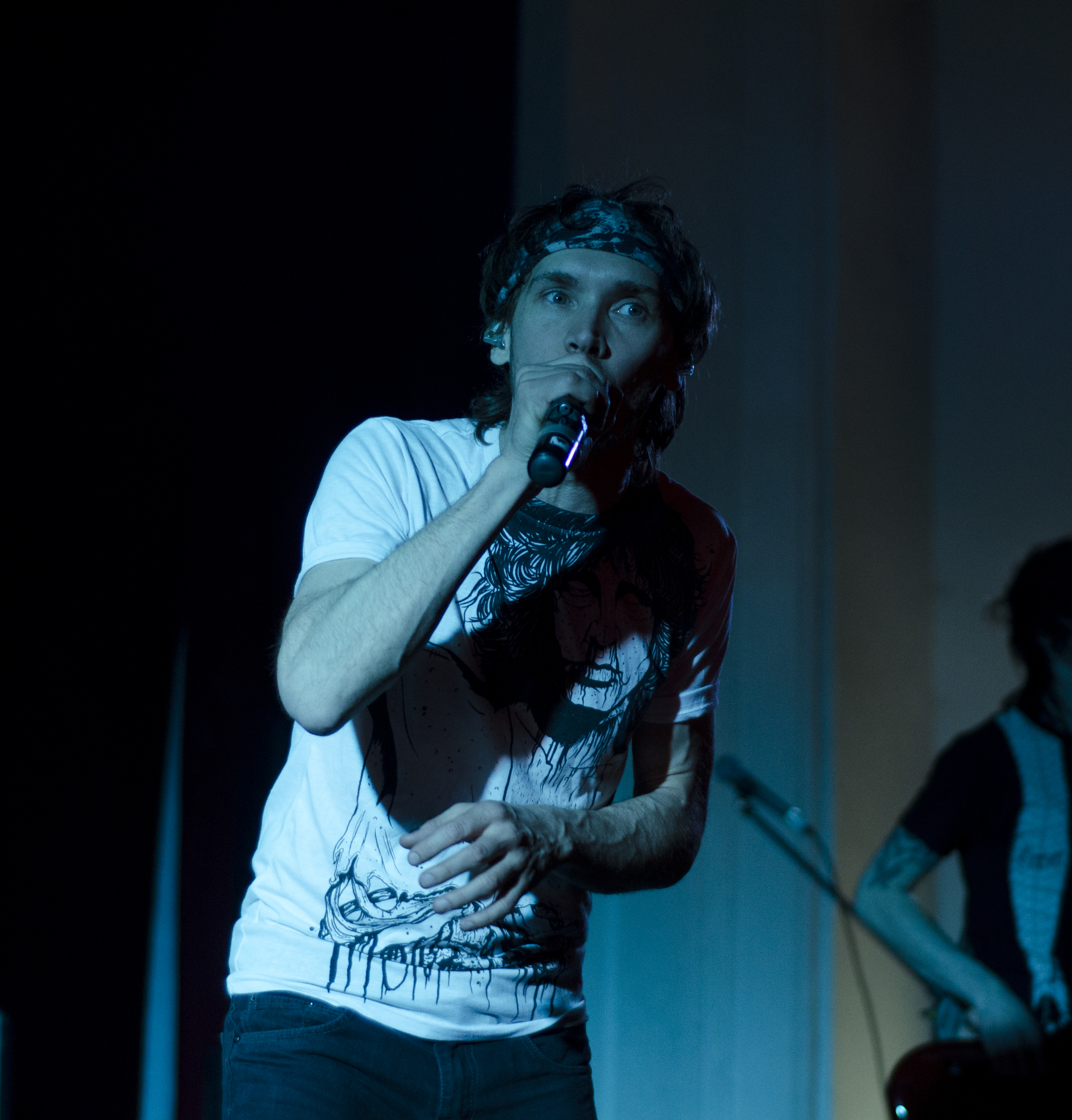 cash. slot. by Dmitry Galkin